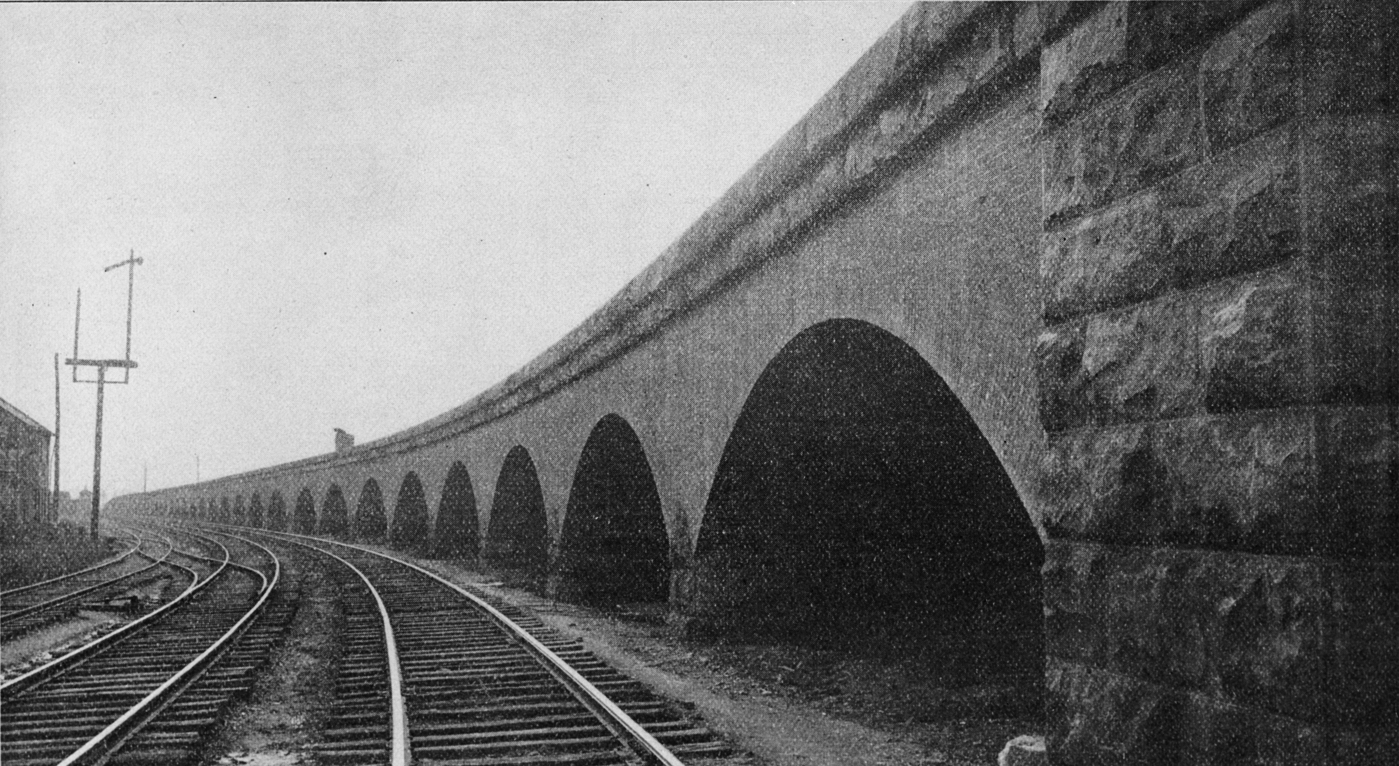 The newly built Wilmington Rail Viaduct of the Philadelphia, Baltimore and Washington Railroad (Pennsylvania Railroad). The stone abutment on the right, for the Linden Street bridge behind the photographer, marks the north end of the brick viaduct and the beginning of retaining wall and fill construction. The middle and right tracks at ground level are the old PB&W main line; one of these tracks was removed after the completion of the viaduct and the other retained for local switching. The leftmost track is the Baltimore and Ohio Railroad's Market Street Branch.